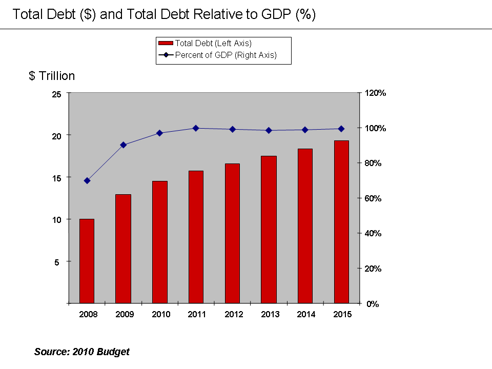 U.S. Debt and Debt Relative to GDP - 2010 Budget Understanding the diagram Total debt will nearly double in dollar terms between 2009 and 2015 and will grow to 100% of GDP, versus a level of approximately 60% when President Bush took office in 2001 and 75% when he left office in 2008. President Obama and multiple government sources including the GAO, Treasury Department, and CBO have said the U.S. is on an unsustainable fiscal path. The 100% level is considered a dangerous level by some economists, as such a high debt level creates a risk of currency devaluation (a tacit form of default, by paying back the debt with cheaper currency). Investors (including other governments) compensate for this risk by demanding higher interest rates, which would slow domestic U.S. growth. In addition, a higher debt requires larger interest payments, which presently exceed $430 billion dollars (cash interest plus accrued), or about 15 cents of every tax dollar for 2008. According to the CIA Factbook, only six other countries have debt to GDP ratios over 100% for 2008, the largest of which is Japan at 170%[1]